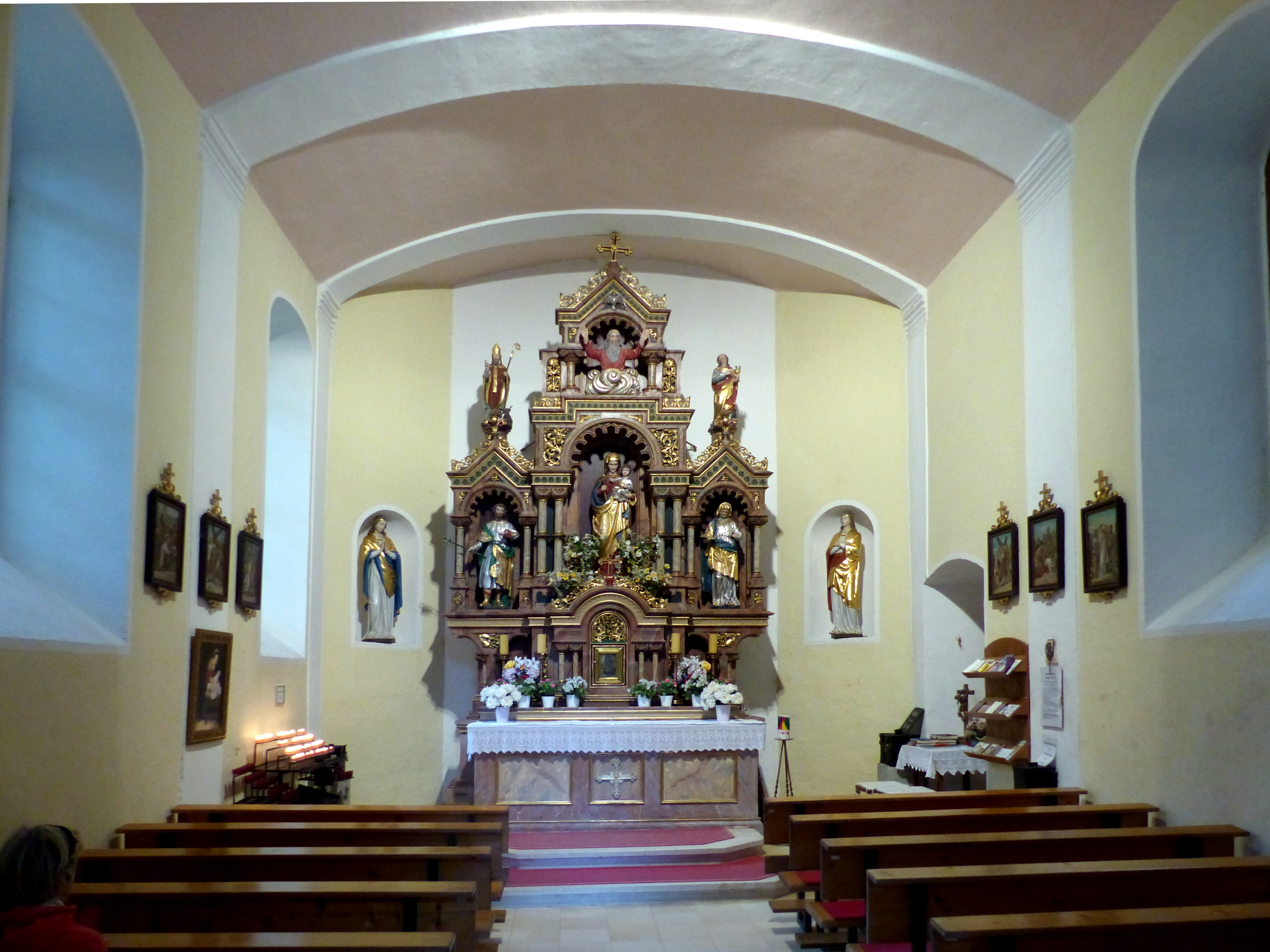 Altenfelden ( Upper Austria ). Maria Poetsch chapel ( 1875 ) - Interior.